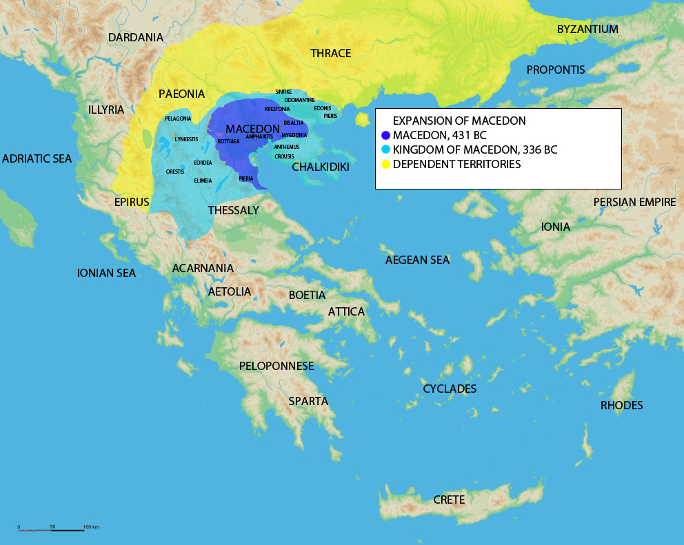 Macedon during the Peloponnesian War, around 431 BC, and during the early Hellenistic period, around 336 BC, at the death of Phillip II of Macedon